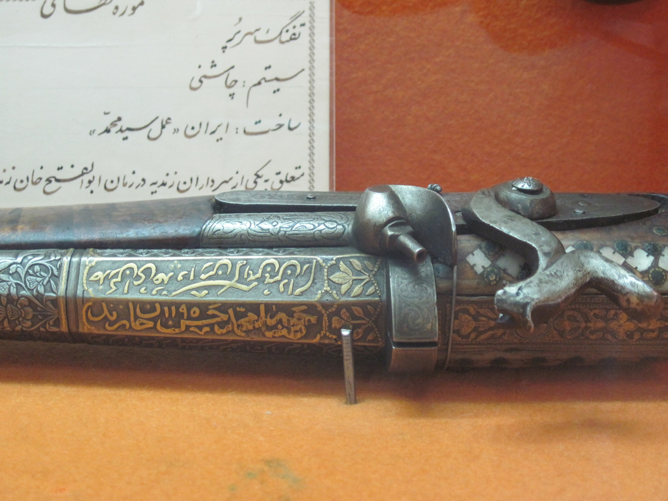 Gun - Zand dynasty - Iran